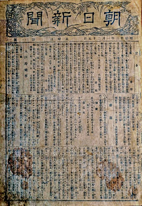 Front page of the first issue of Asahi Shimbun